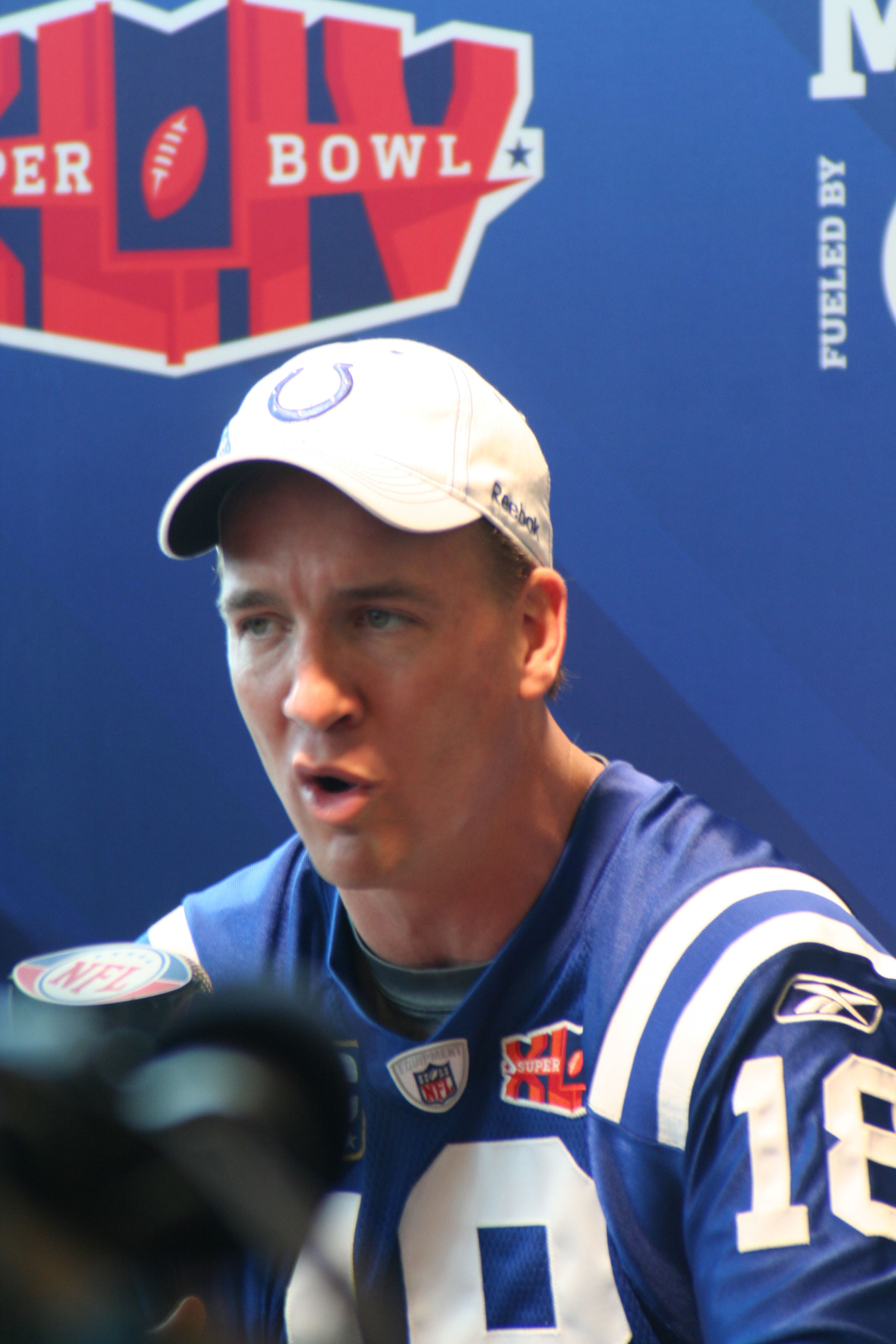 Peyton Manning of the Indianapolis Colts at a Media Day event before Super Bowl XLIV